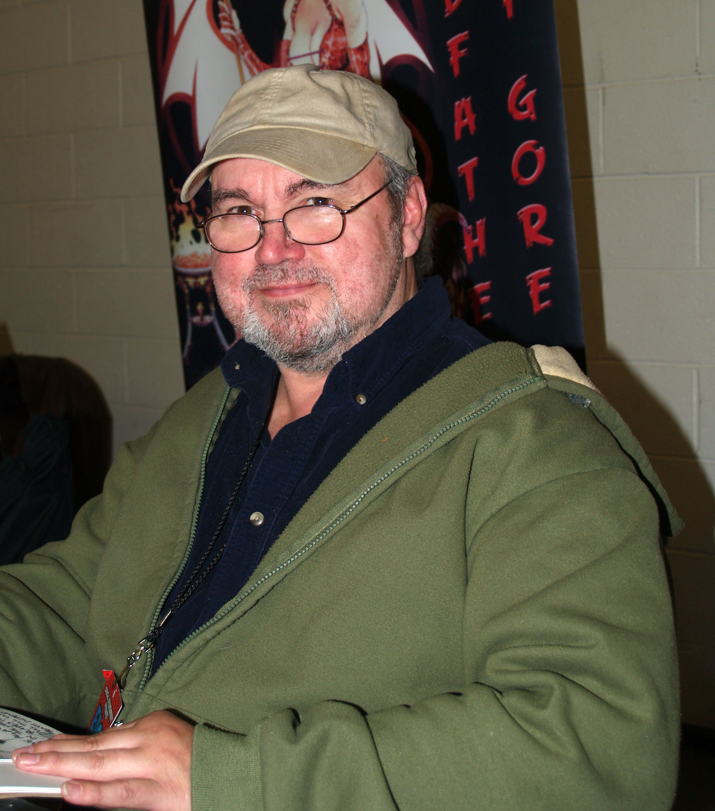 Comics creator Tim Vigil at the Meadowlands Exposition Center in Secaucus, New Jersey on April 16, 2016, Day 1 of the 2016 East Coast Comicon. This photo was created by Luigi Novi. It is not in the public domain, and use of this file outside of the licensing terms is a copyright violation.